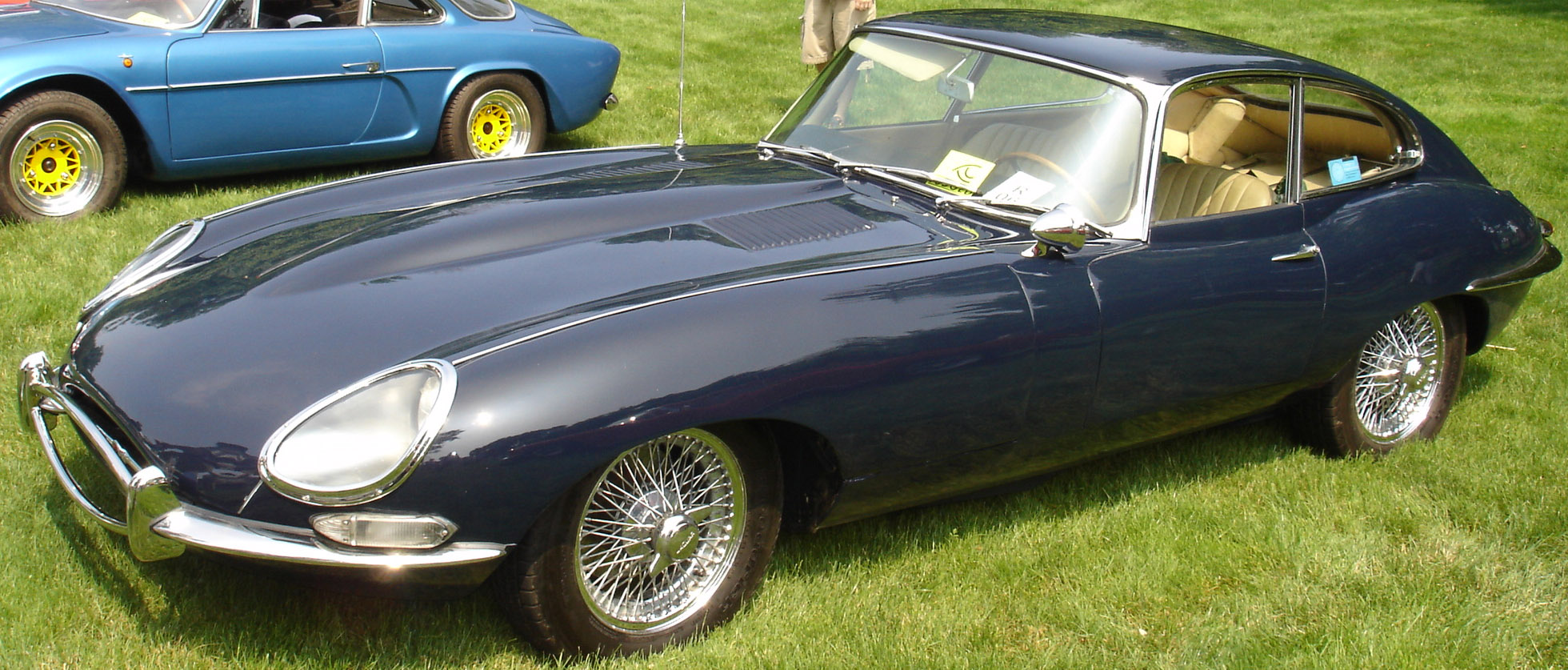 Jaguar e-Type series one